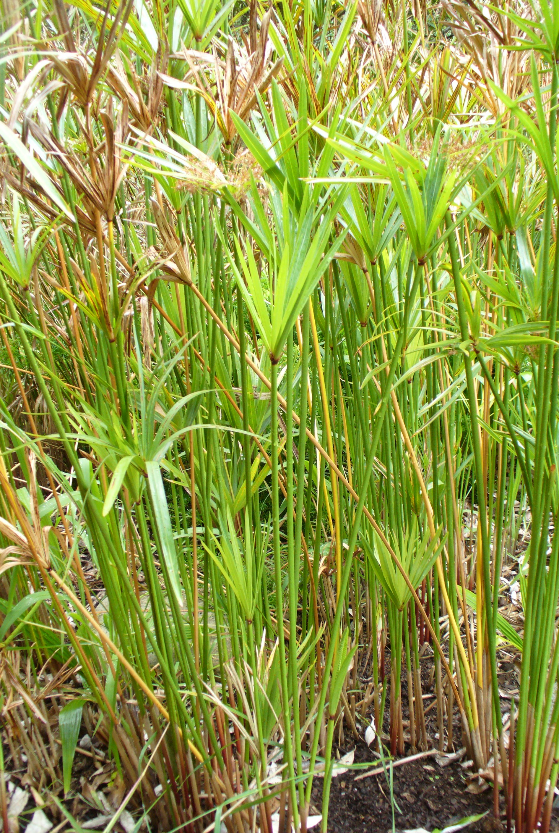 Matjiesgoed, mat sedge, umbrella sedge. Kirstenbosch Gardens Cape Town